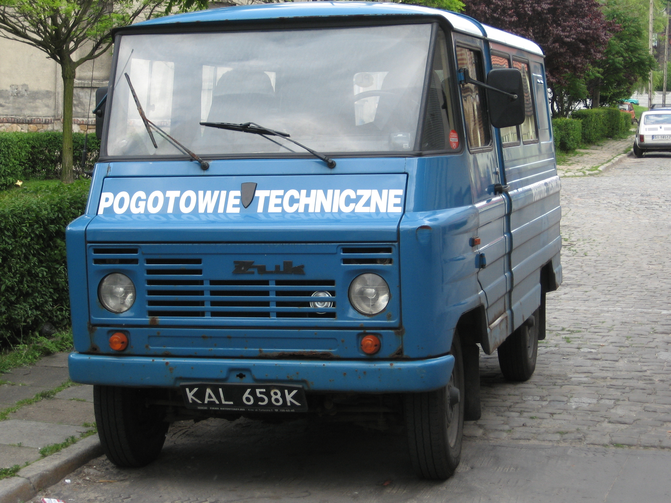 Polish FSC Żuk van. The inscription says public utilities emergency service